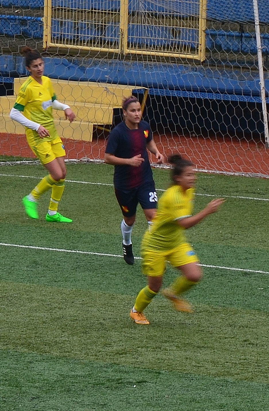 Aylin Yaren playing for Trabzon İdmanocağ (women) in the 2015-16 season